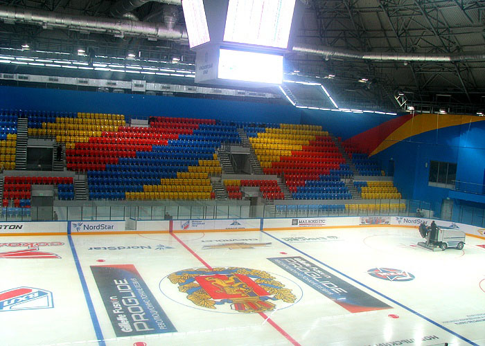 before the game